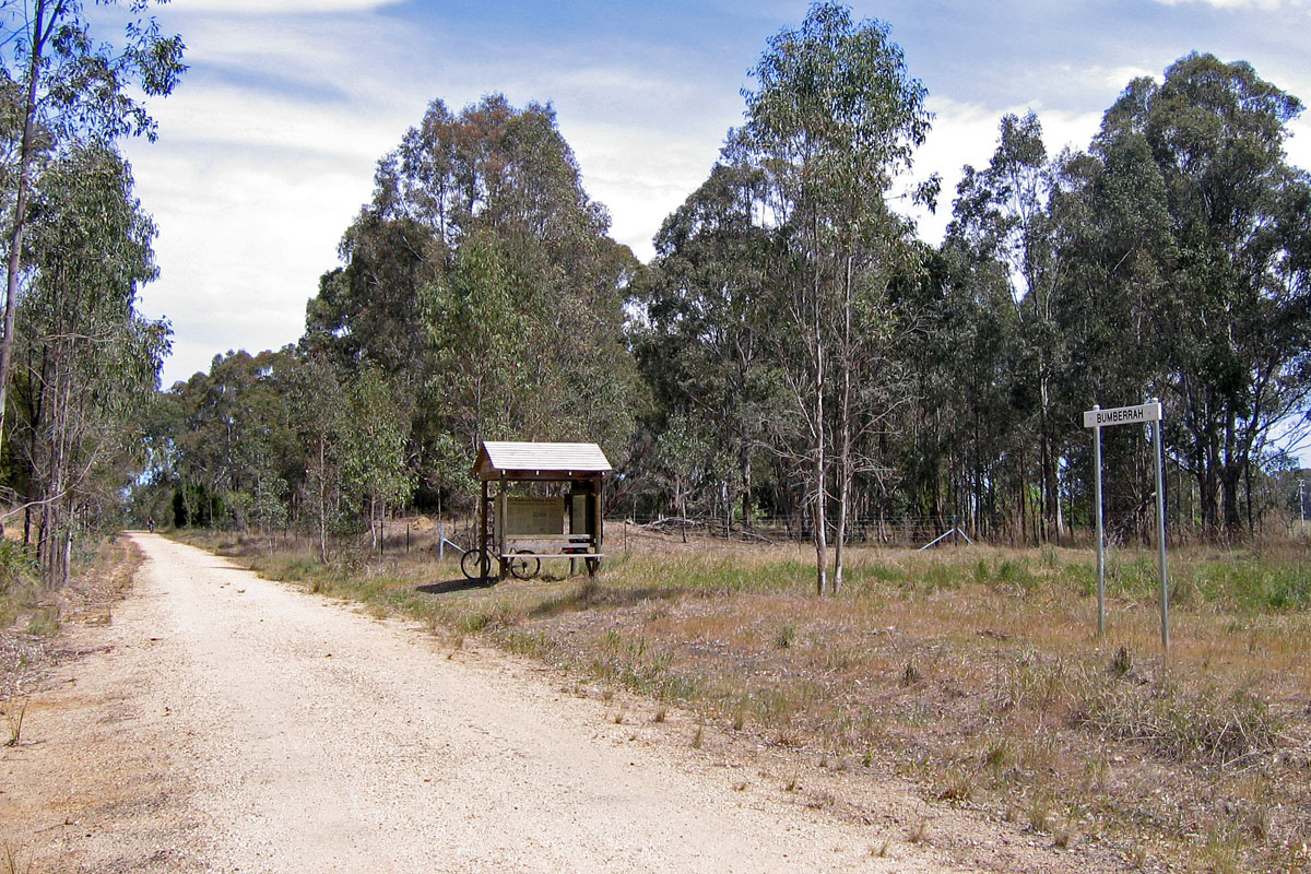 Looking south (towards Bairnsdale) on the East Gippsland Rail Trail at the site of the former Bumberrah Railway Station, Victoria, Australia.